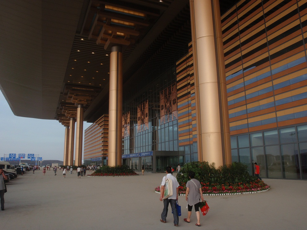 Nanjing South Railway Station, Beijing - Shanghai High Speed Railway, P.R. of China.